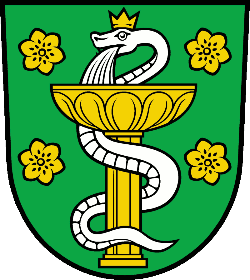 granted 15 May 2007.